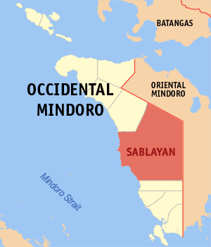 Map of Occidental Mindoro showing the location of Sablayan